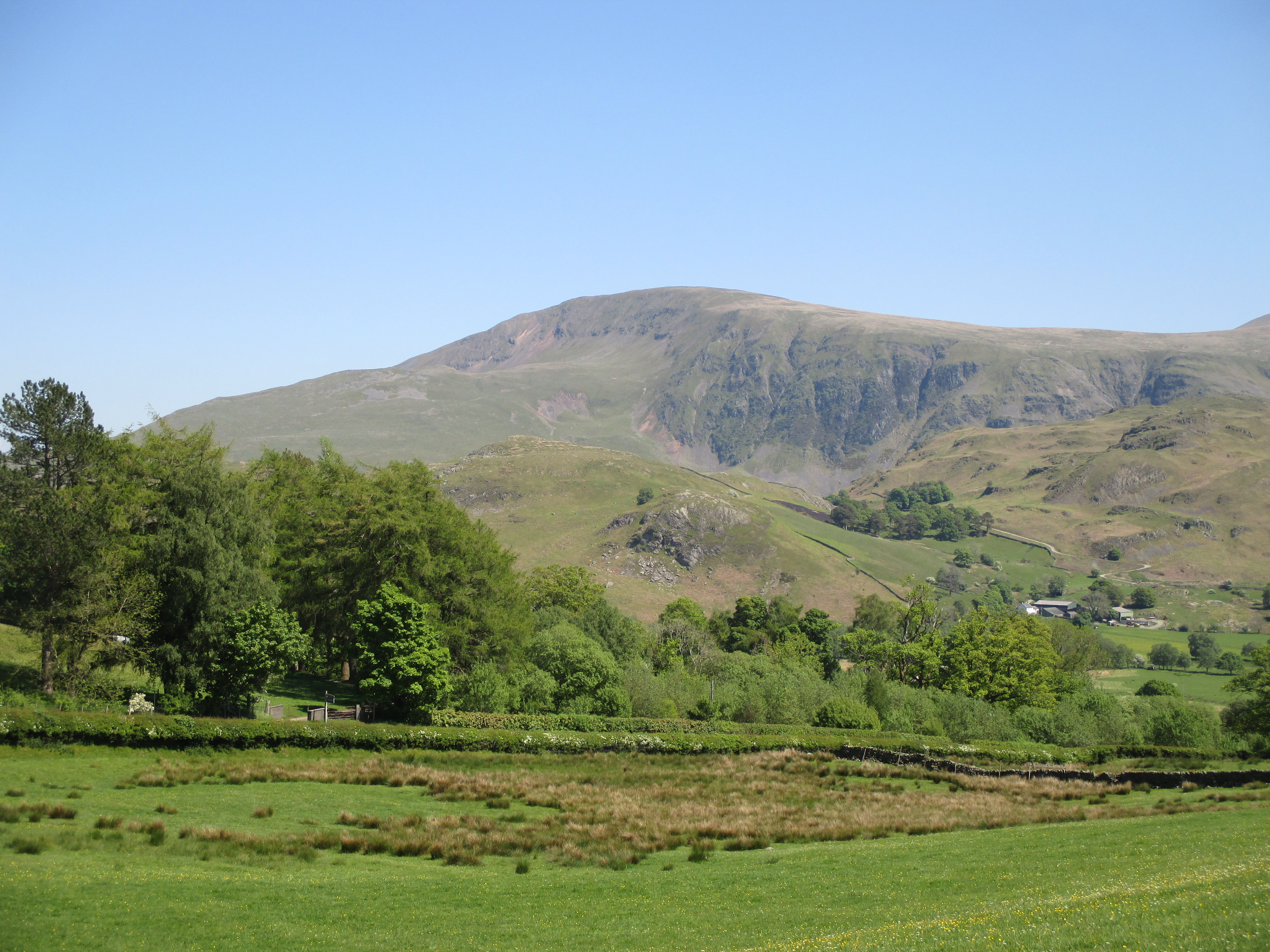 Low Rigg, a subsidiary peak of High Rigg, near Legburthwaite, Cumbria, seen from Castlerigg. The lower Skelthwaite Crag is in front of it.